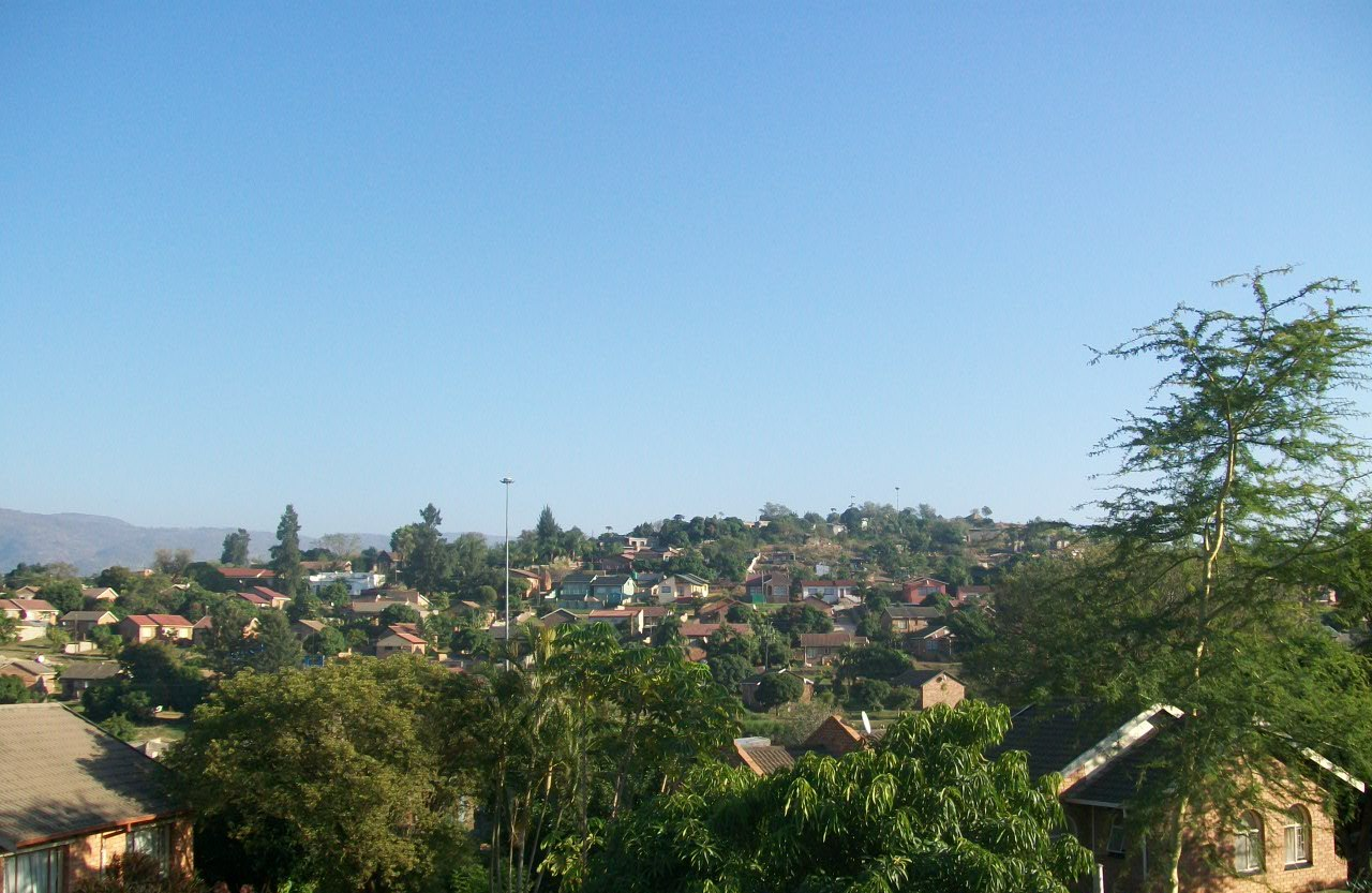 A view of Matsulu C, taken 09 July 2010